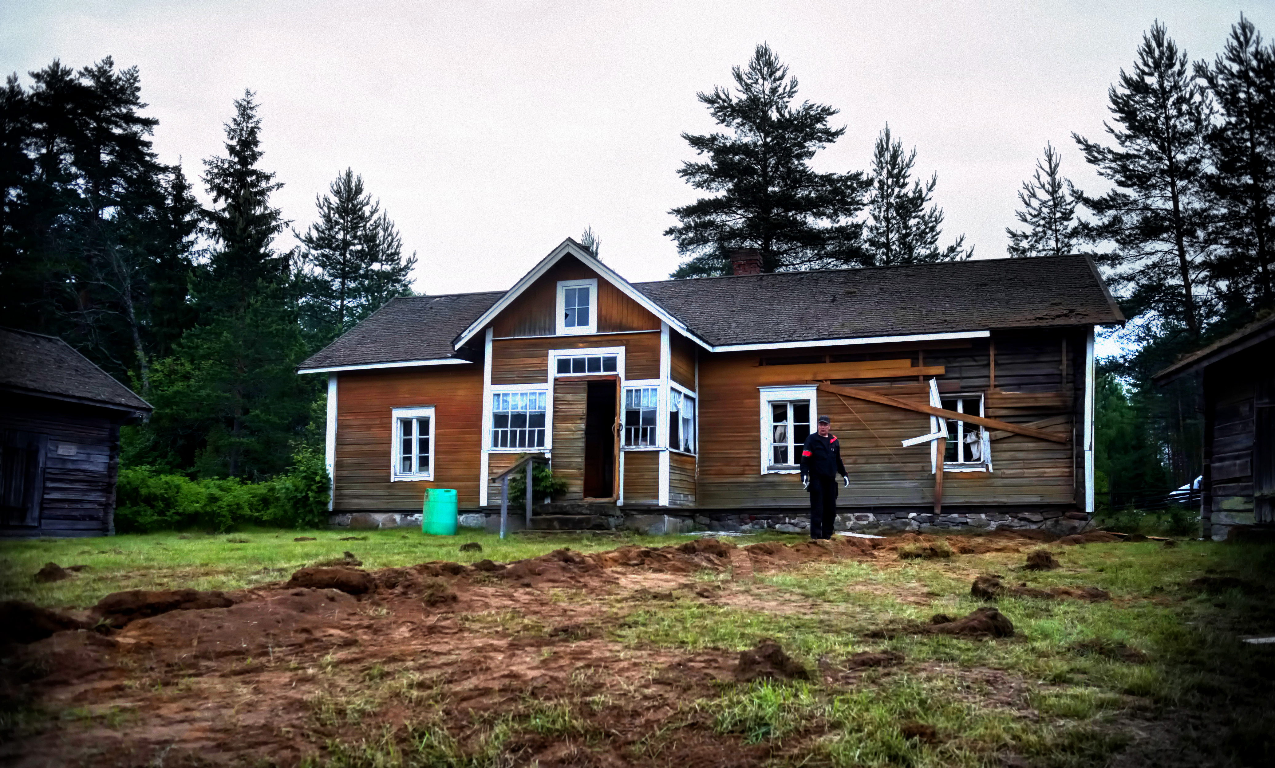 Pätäri House Museum